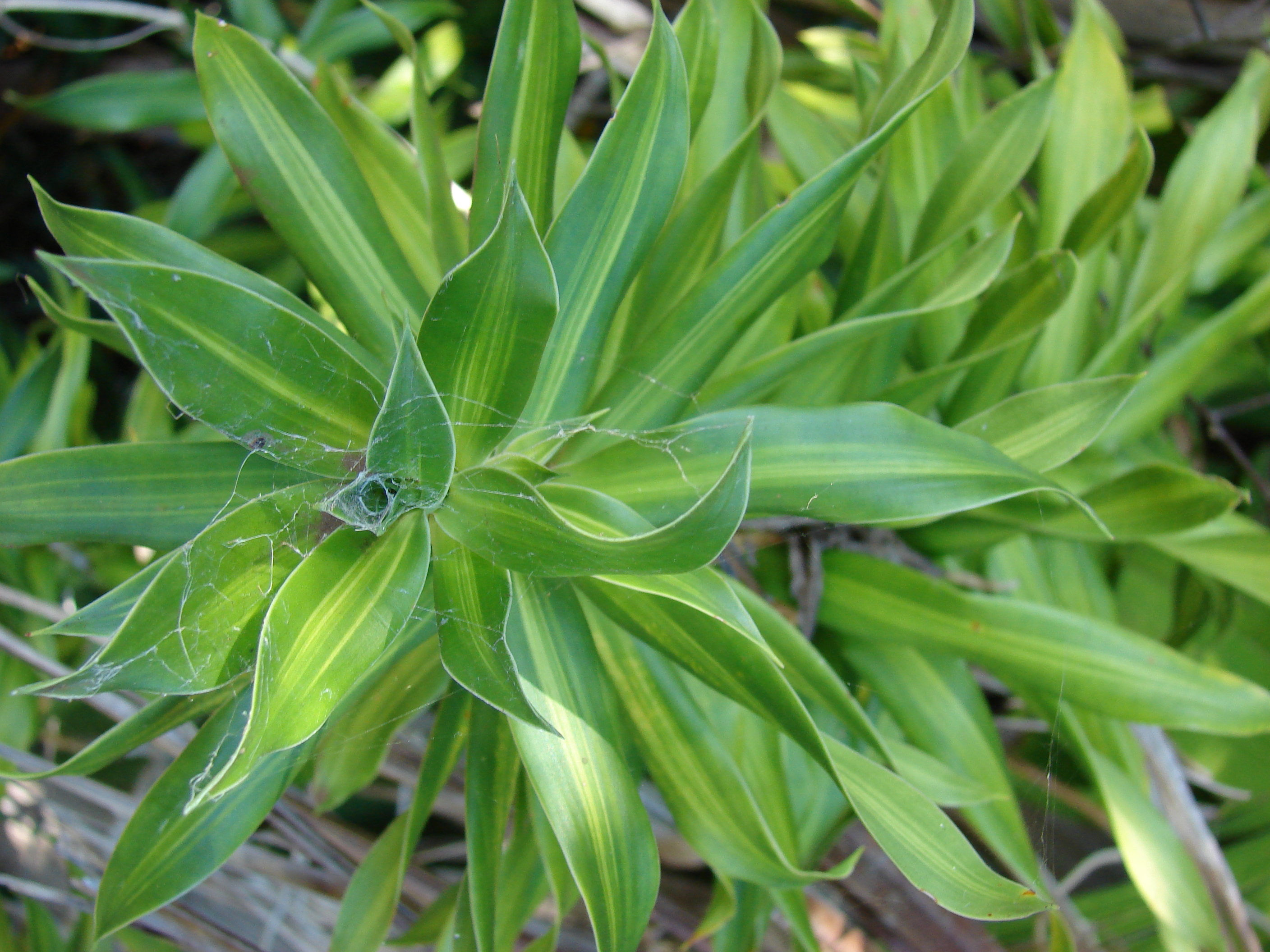 Dracaena reflexa (variegated leaves). Location: Maui, Enchanting Floral Gardens of Kula